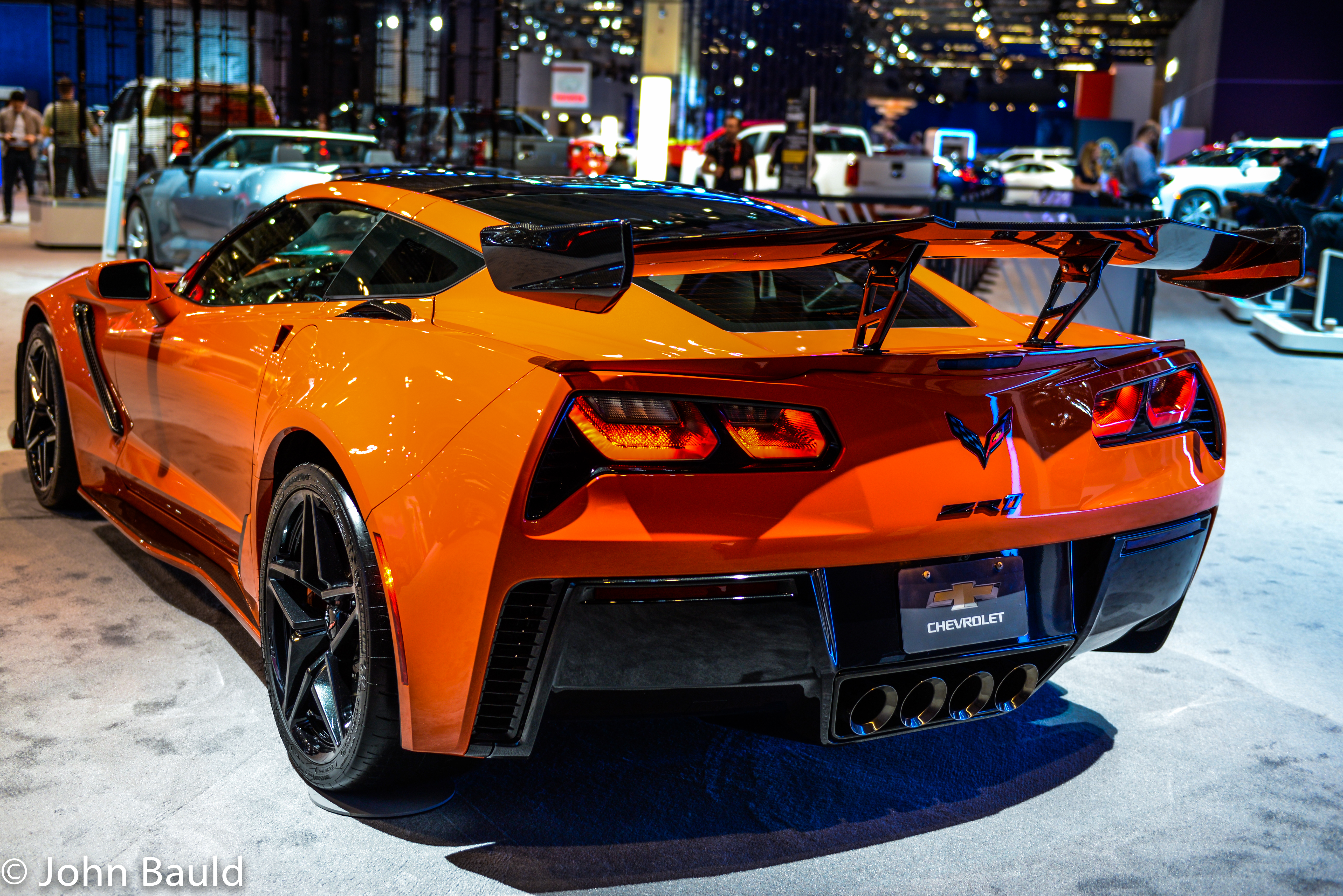 CIAS (1 of 1)-3